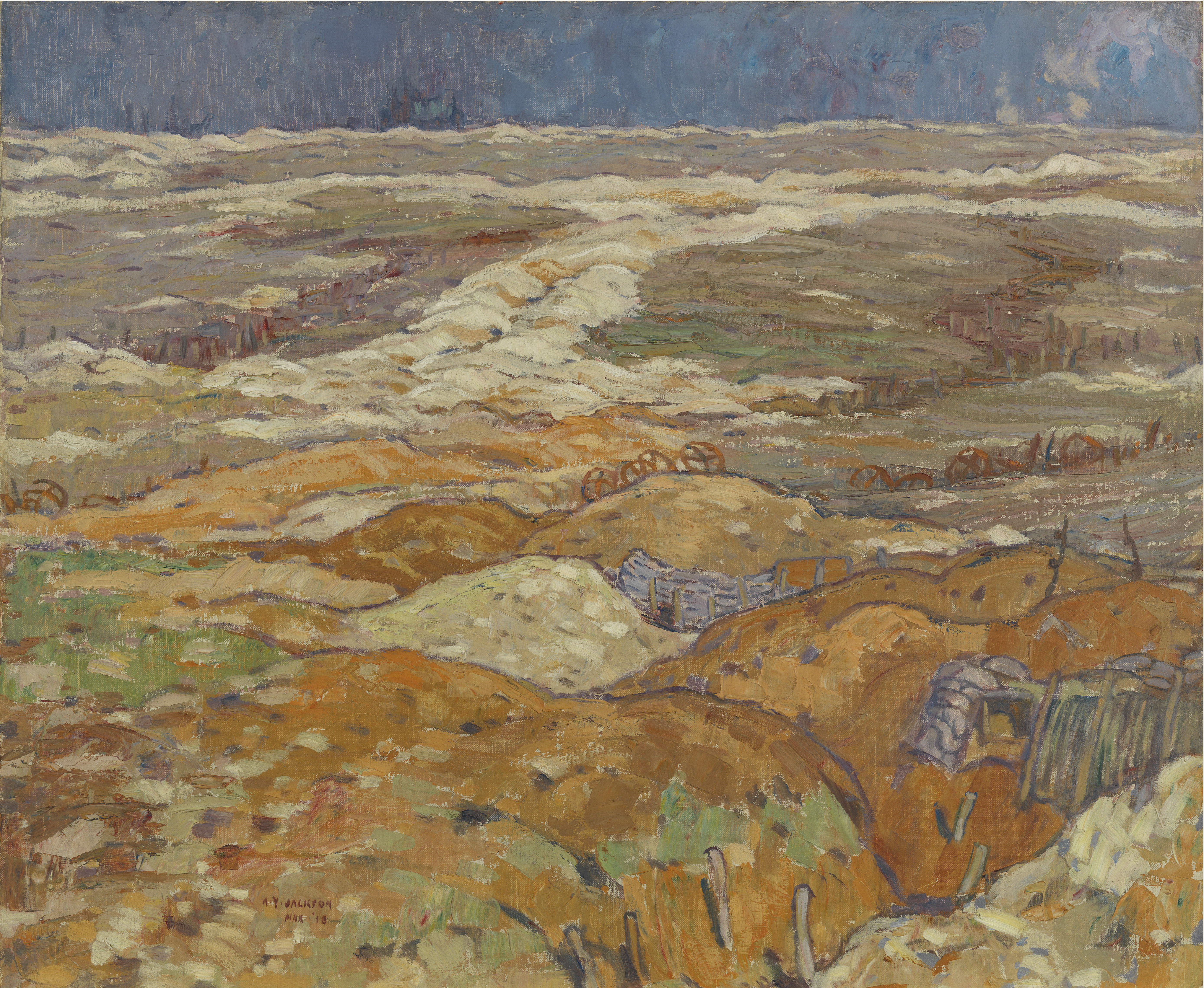 Ruined landscape on the Western Front, showing captured German trenches and barbed wire snaking across the terrain.